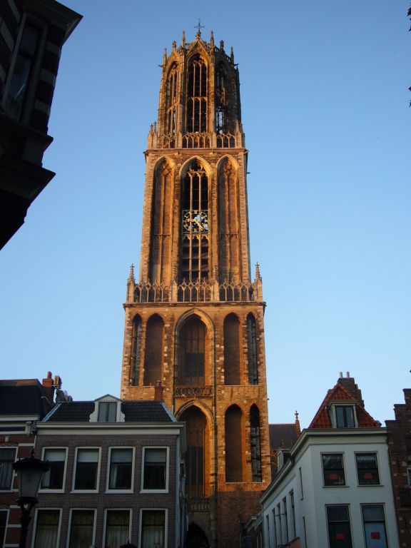 Dom Tower (Cathedral Tower) Utrecht in evening light